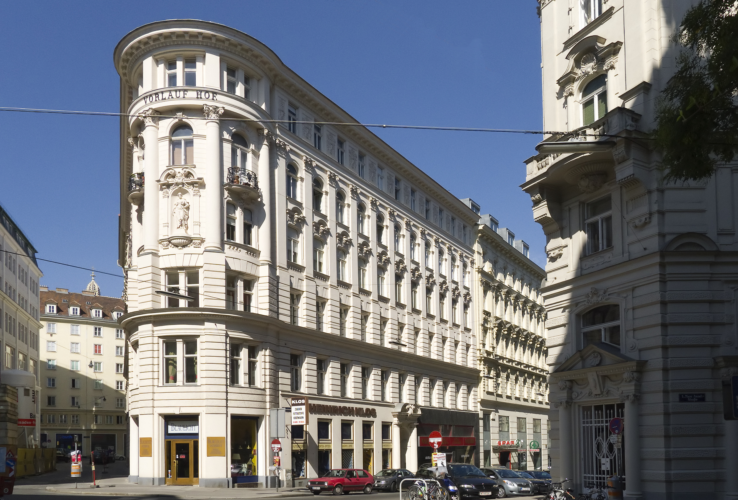 Residential building Vorlaufstraße 1, Vienna